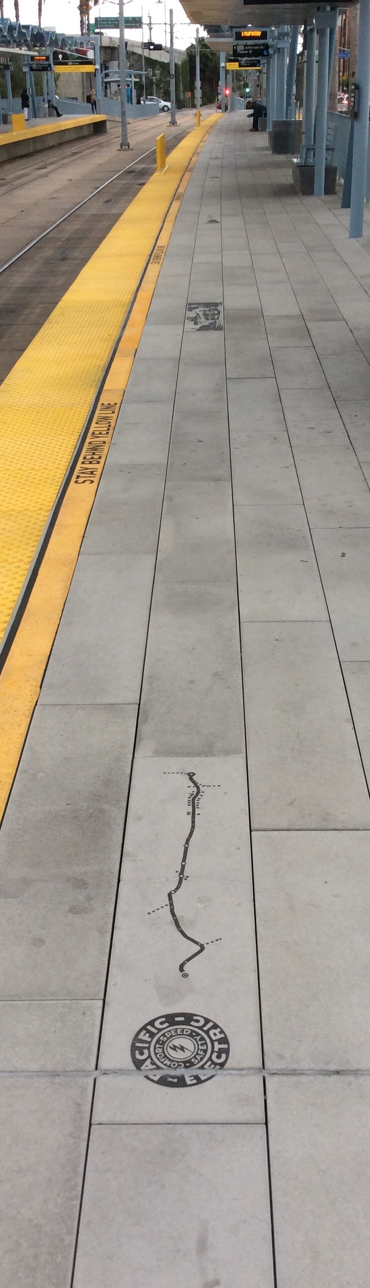 The decoration on the floor of most Los Angeles Metro Expo Line platforms as a dedication to the previous Pacific Electric Railway that used to go along the tracks of today's Expo Line.